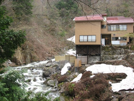 Odaira hot spa (City of Yonezawa, Japan)